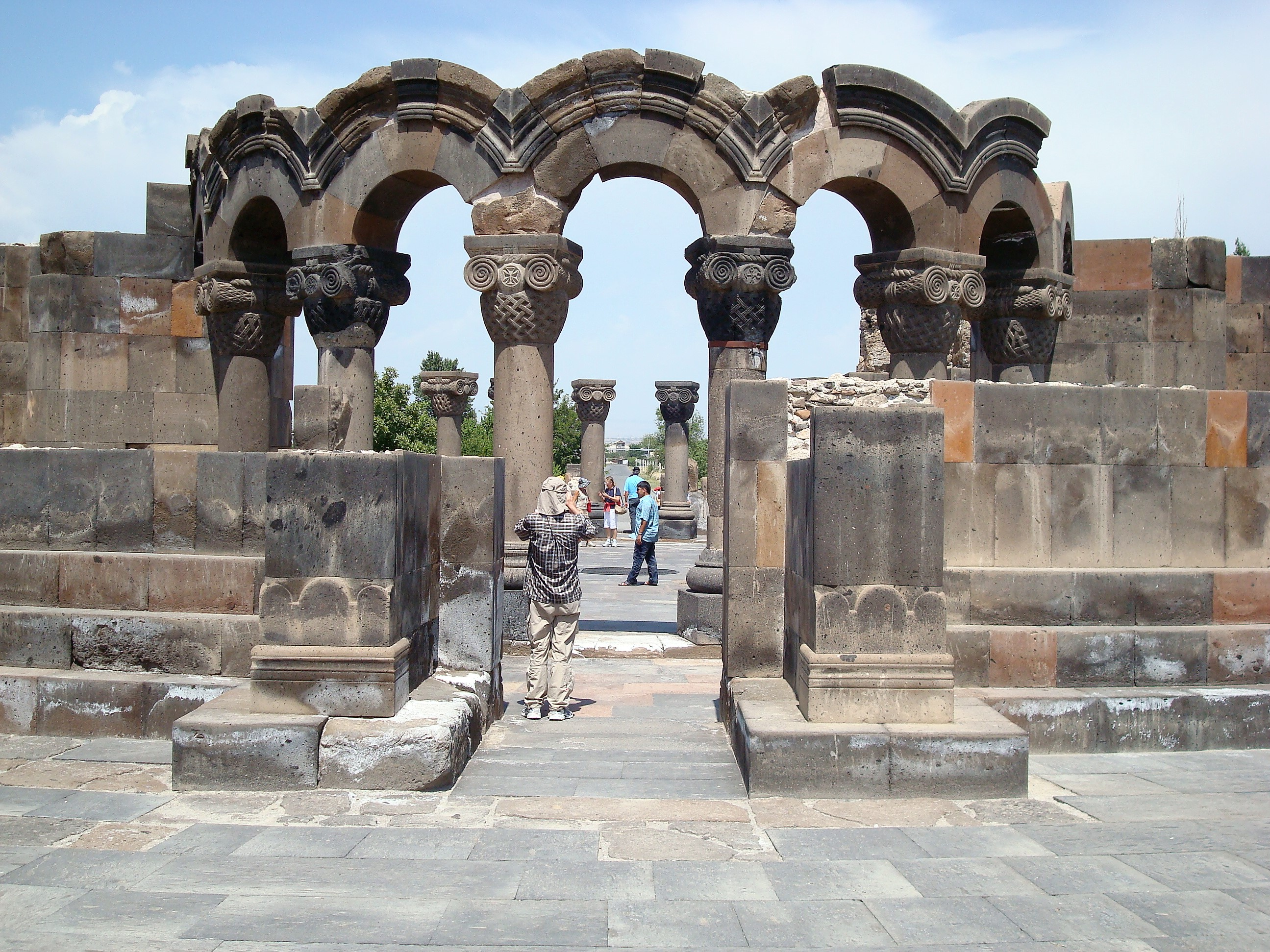 Zvartnots Cathedral in Armenia. Built in 7th century, UNESCO World heritage.